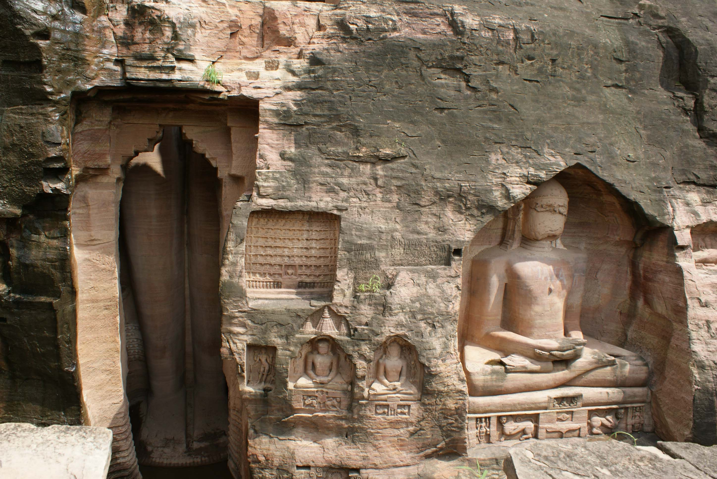 Sculptures carved on the rock in Gwalior Fortress